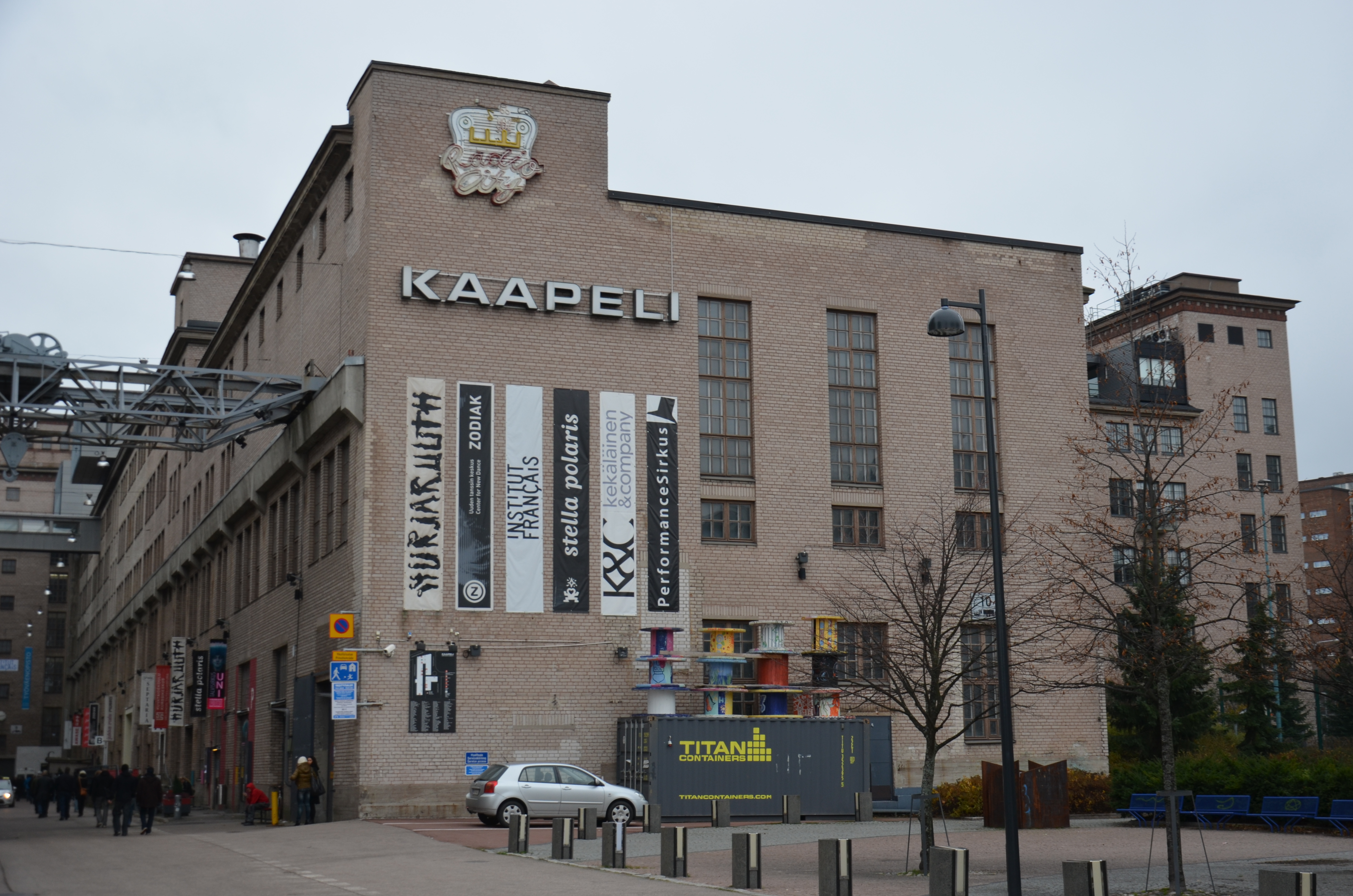 Kabelfabriken Helsingfors